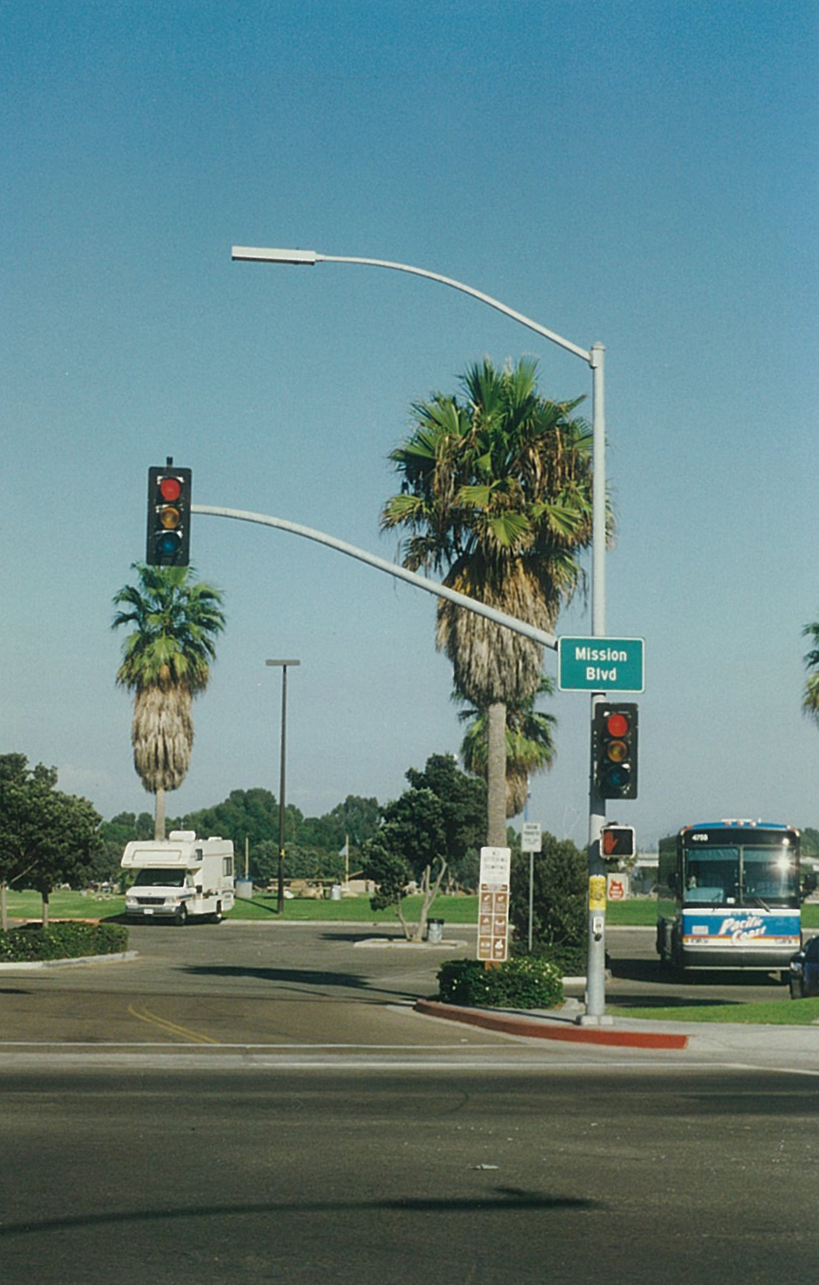 San Diego, CA, USA, Mission Boulevard.